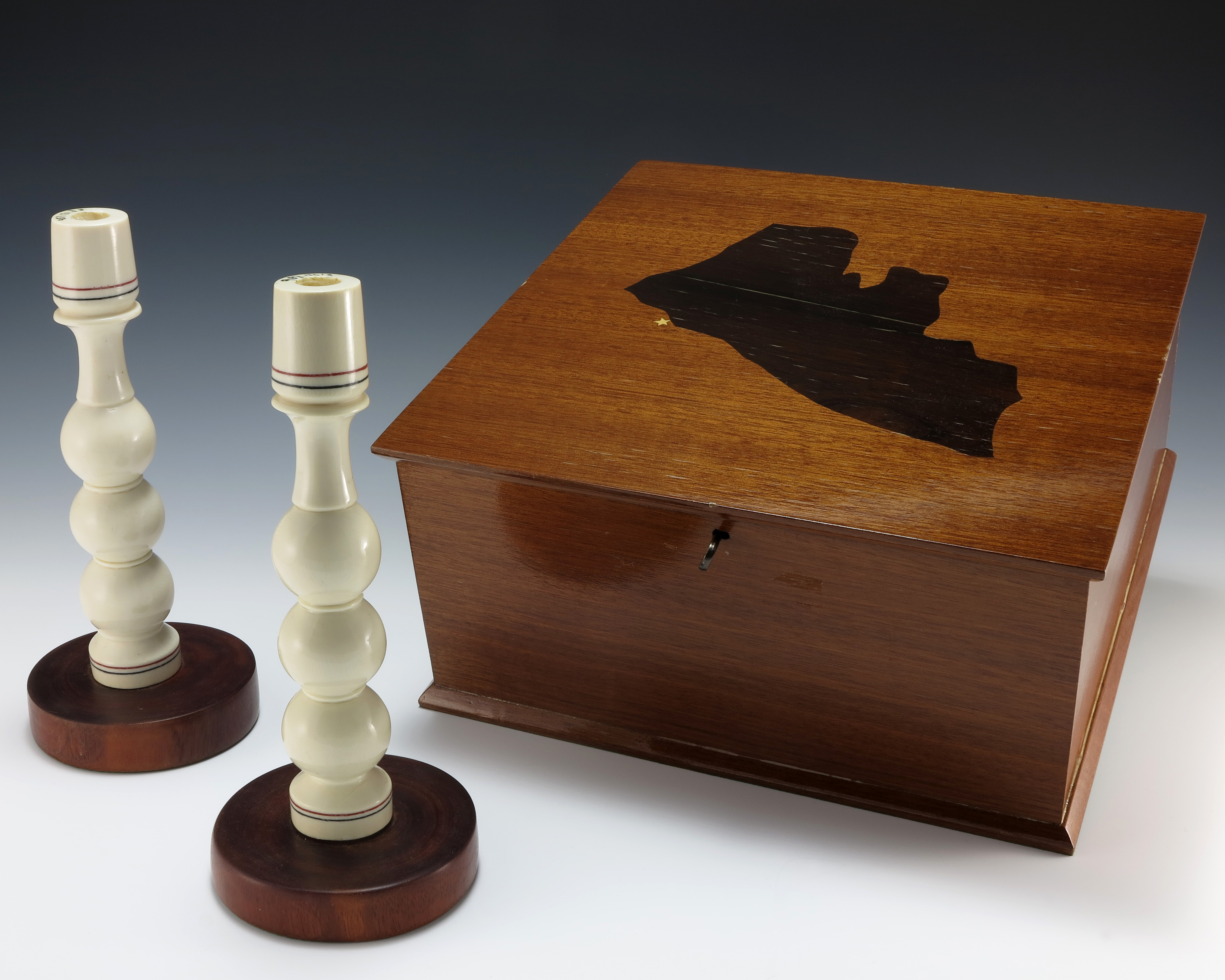 A pair of ivory candlesticks mounted on natural wood bases. Thin black and red lines decorate the top and the bottom of the ivory. The candlesticks are enclosed in a wooden presentation box with brass hinges and key. The interior of the box has two velvet covered rests for the candlesticks and the cover of the box displays an outline of Liberia done in a darker wood inlay. Gift of President William R. Tolbert of Liberia.